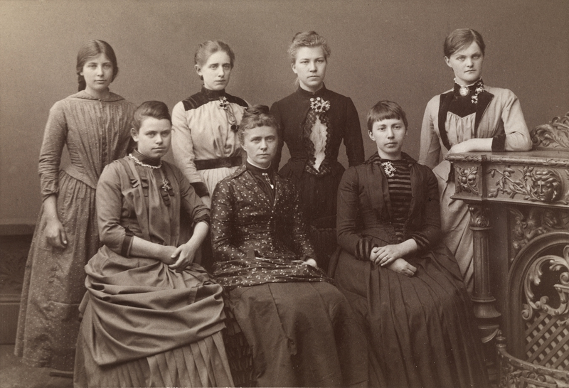 Depicted persons: Back, from left: Ragnhild Qvam, Aasta Kjølseth, Gudrun Broch and Ella Anker. In front, from left: Regine Haug, Ragna Nielsen and Marie Lundquist.